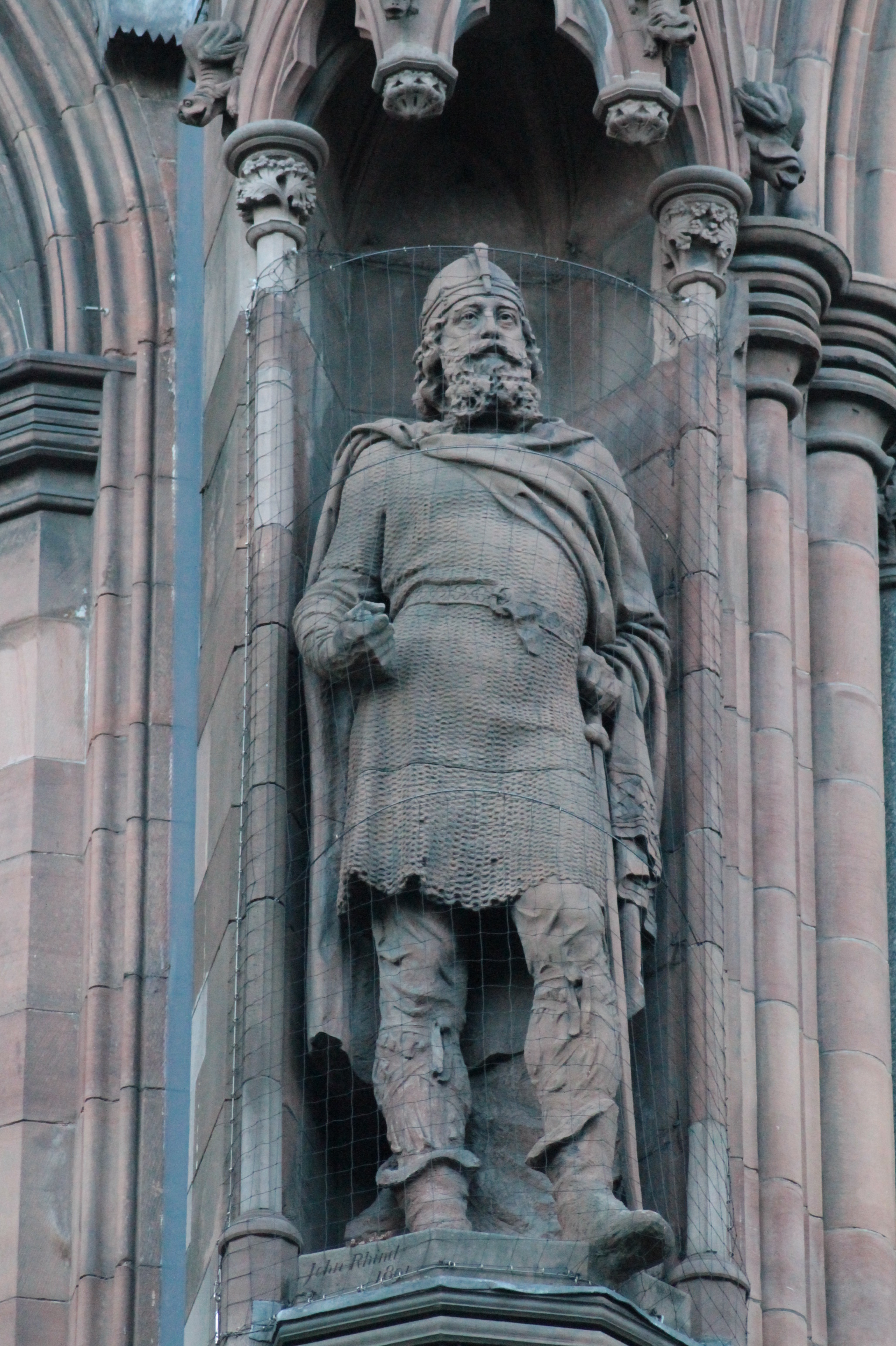 Statue of King Malcolm III, Scottish National Portrait Gallery